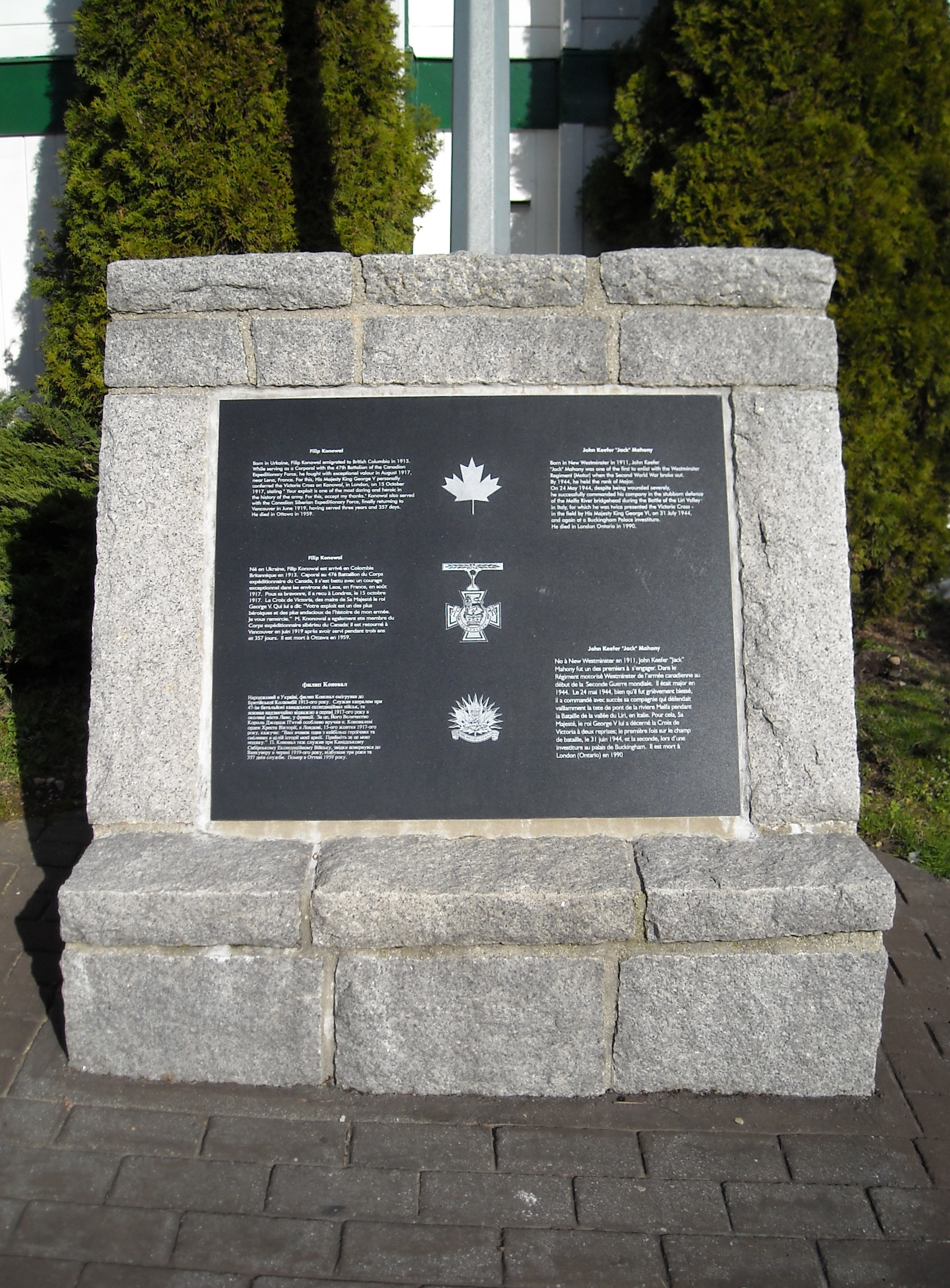 John "Jack" Mahony VC & Filip Konowal VC